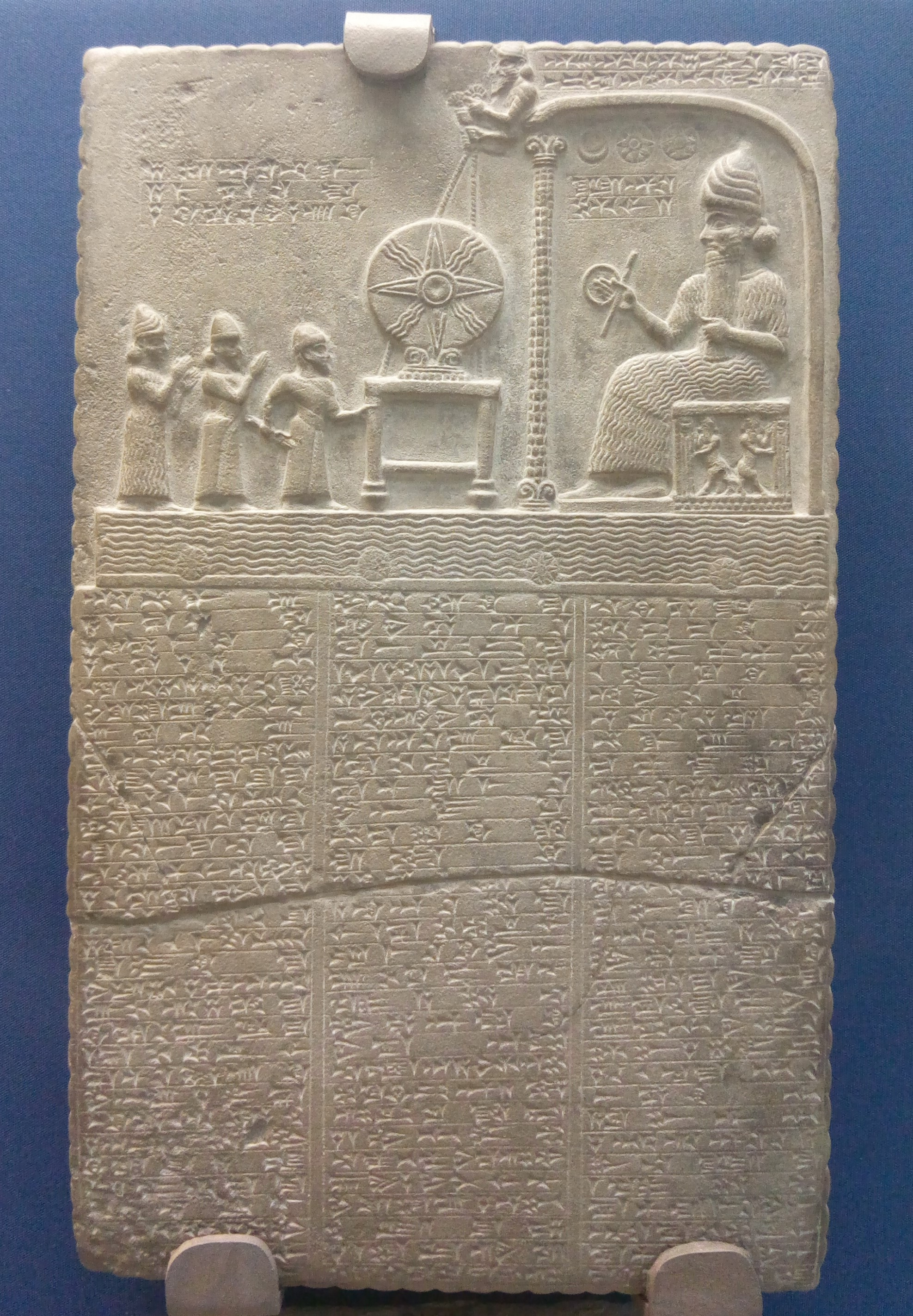 Sun-God Tablet, in limestone, excavated in Sippar in the temple of the Sun-God, Shamash. Commemorates the reconstruction of the cultual statue of the god, by Nabû-apla-iddina, king of Babylon, c. 860-850 BC. ME 91000-91002, 91004.